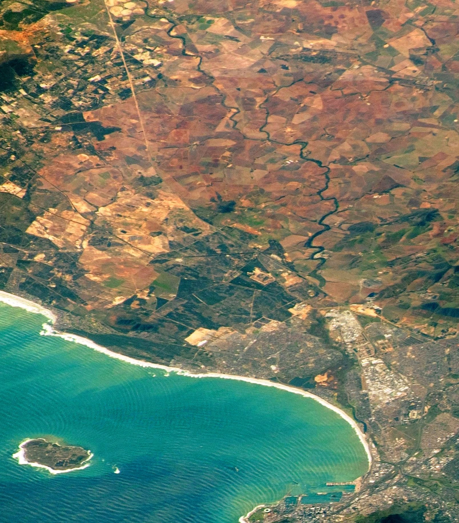 The course of the Diep River is clearly visible among wheat fields of the Swartland, Western Cape, South Africa. The N7 route and Old Malmesbury Road respectively form straight lines on the left and right sides of the river. The curved course of the Mosselbank River, a left bank tributary of the Diep, is also visible. Astronaut photograph ISS059-E-78303 was acquired on May 28, 2019, with a Nikon D5 digital camera using a 340 millimeter lens and is provided by the ISS Crew Earth Observations Facility and the Earth Science and Remote Sensing Unit, Johnson Space Center. The image was taken by a member of the Expedition 59 crew.